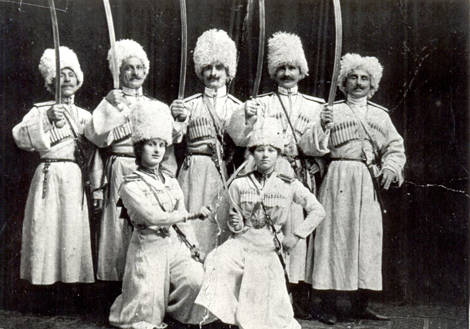 Clockwise from left: Kirile Pirtskhalaishvili, Kitilia Kvitaishvili, Kristephore Imnadze, Veliko Kvitaishvili, Varden Kvitaishvili, Barbale Zakareishvili - Imnadze, Maro Zakareishvili - Kvitaishvili